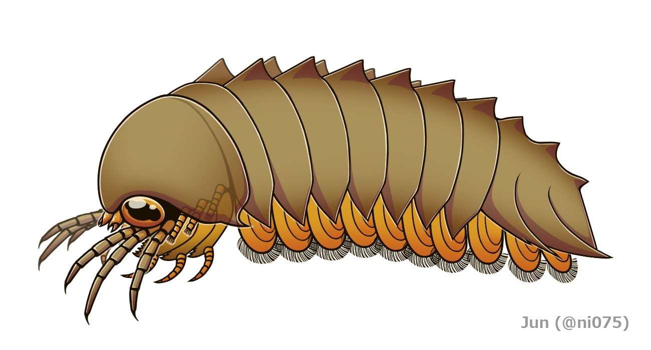 Reconstruction of Mollisonia plenovenatrix, a cambrian mollisonid arthropod (basal chelicerate). Side view showing the cephalon has 3 pairs of posterior gnathobase-bearing biramus appendages. Note the podomere number of exopod is conjectural.